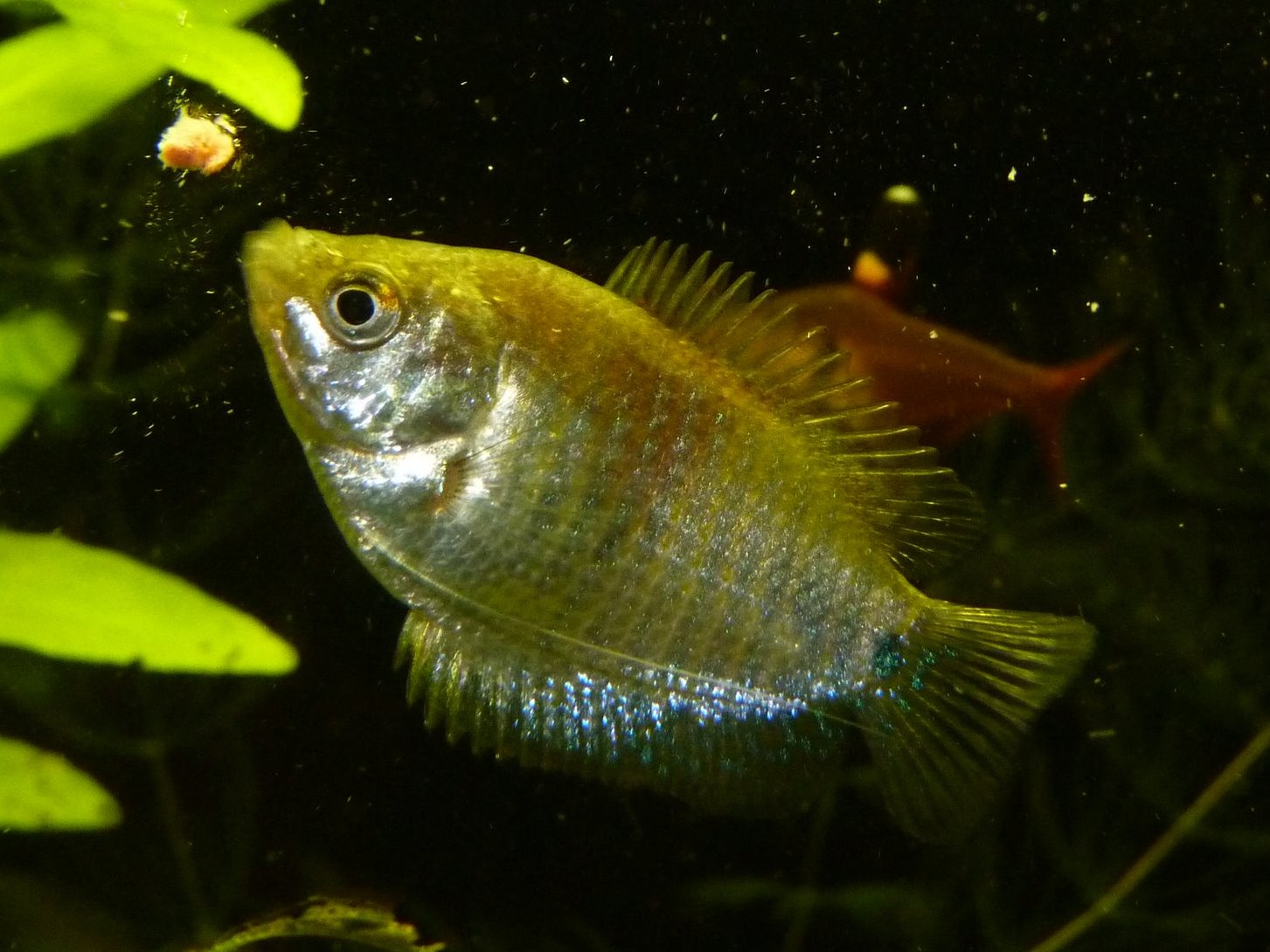 a female colisa lalia